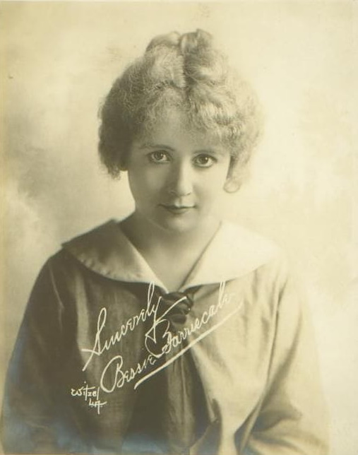 Promotional portrait of American actress Bessie Barriscale (1884–1965) by Albert Witzel (Witzel Studios, L.A.)